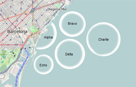 1992 Olympic Course area's This map may be incomplete, and may contain errors. Don't rely solely on it for navigation.